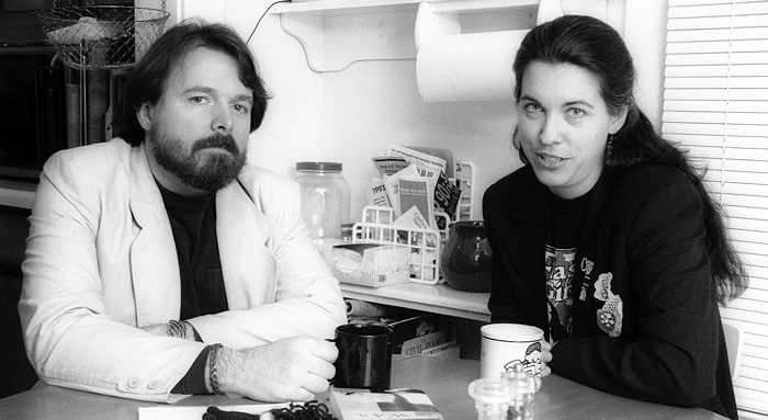 Will Shetterly and Emma Bull at home in Minneapolis